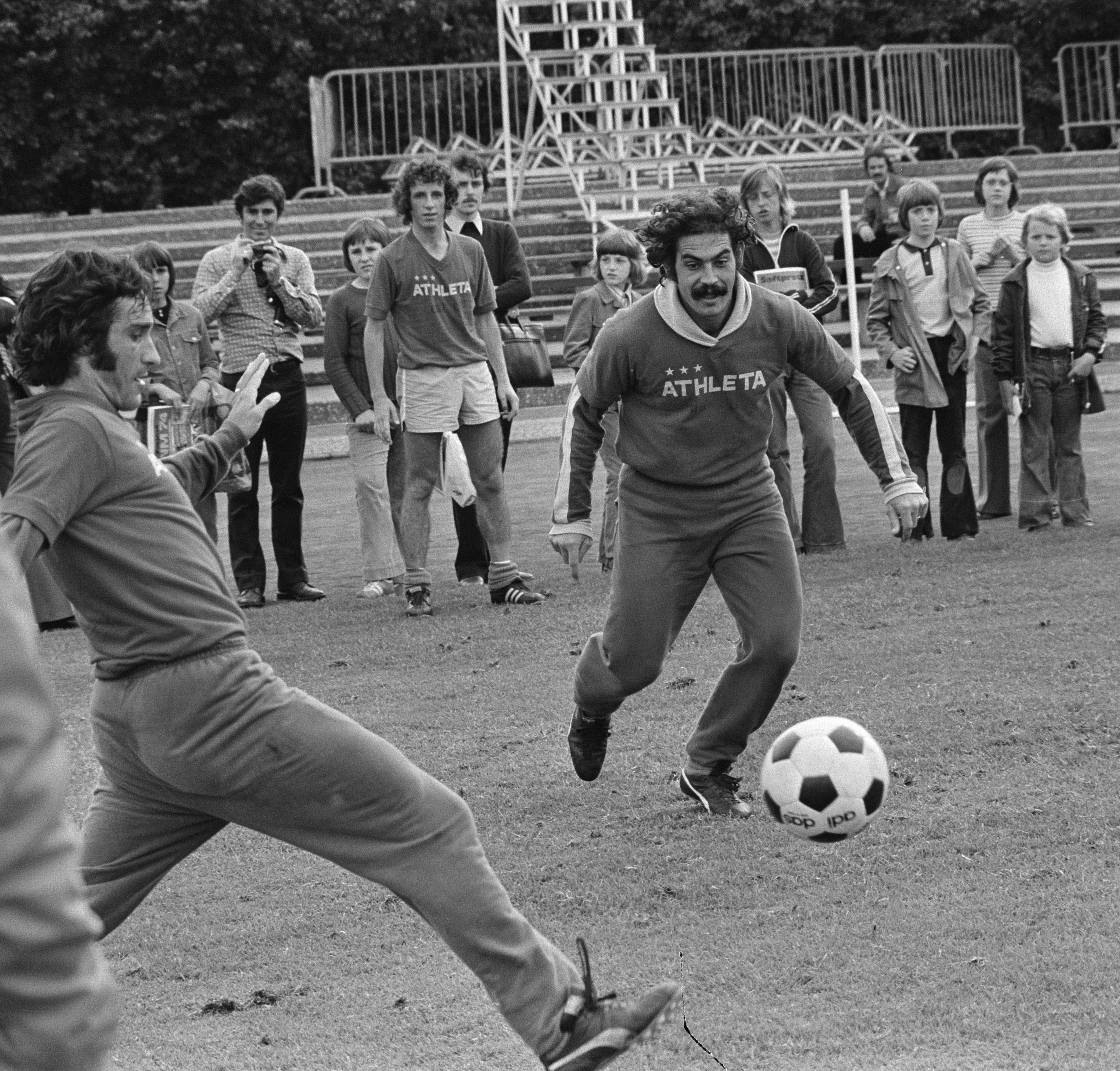 Brazilian player Roberto Rivellino, training with the national team during the 1974 FIFA World Cup held in Germany.